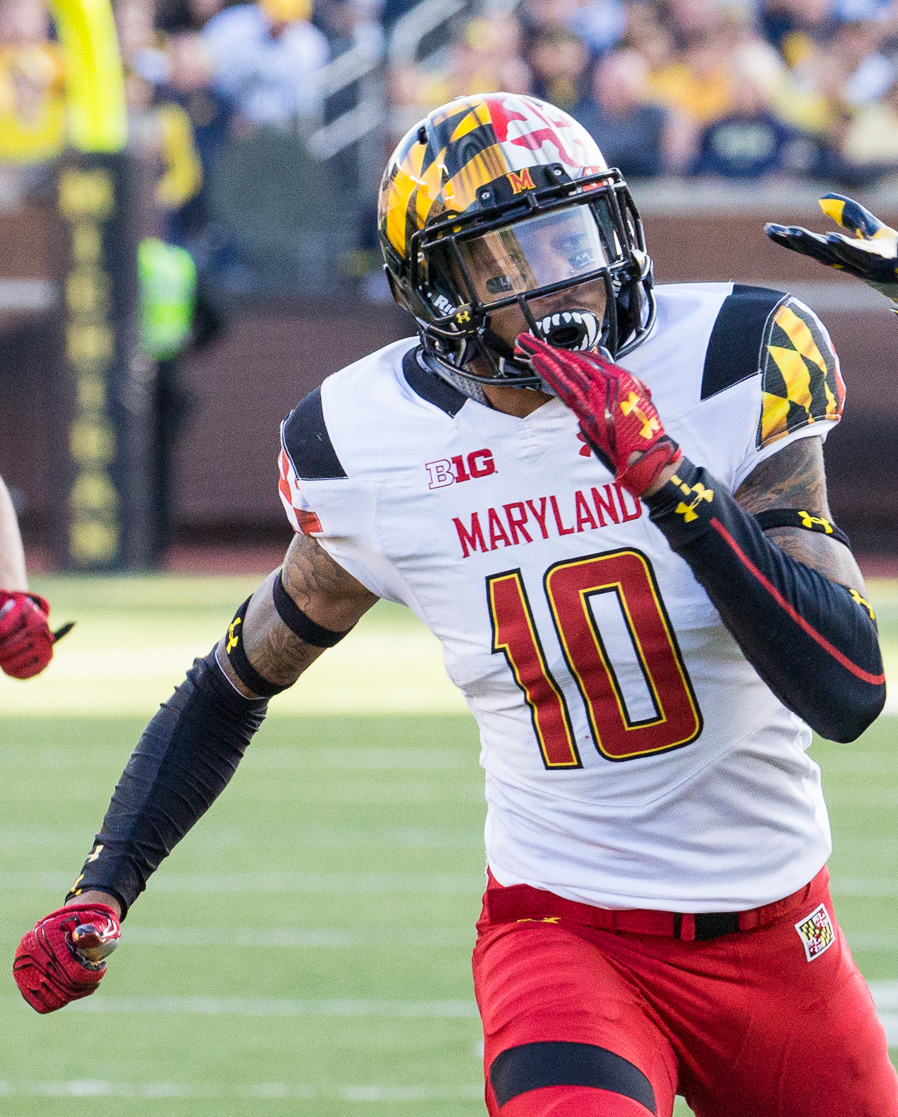 PAB_FB_Maryland2016_37